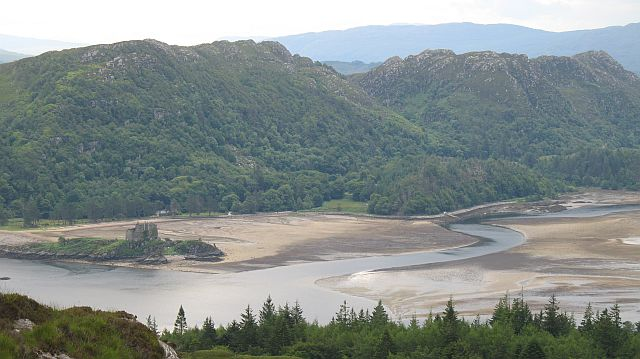 Castle Tioram and Cruach nam Meann Craggy hillsides above Loch Moidart and the outflow of the River Sheil. View from Eilean Shona.